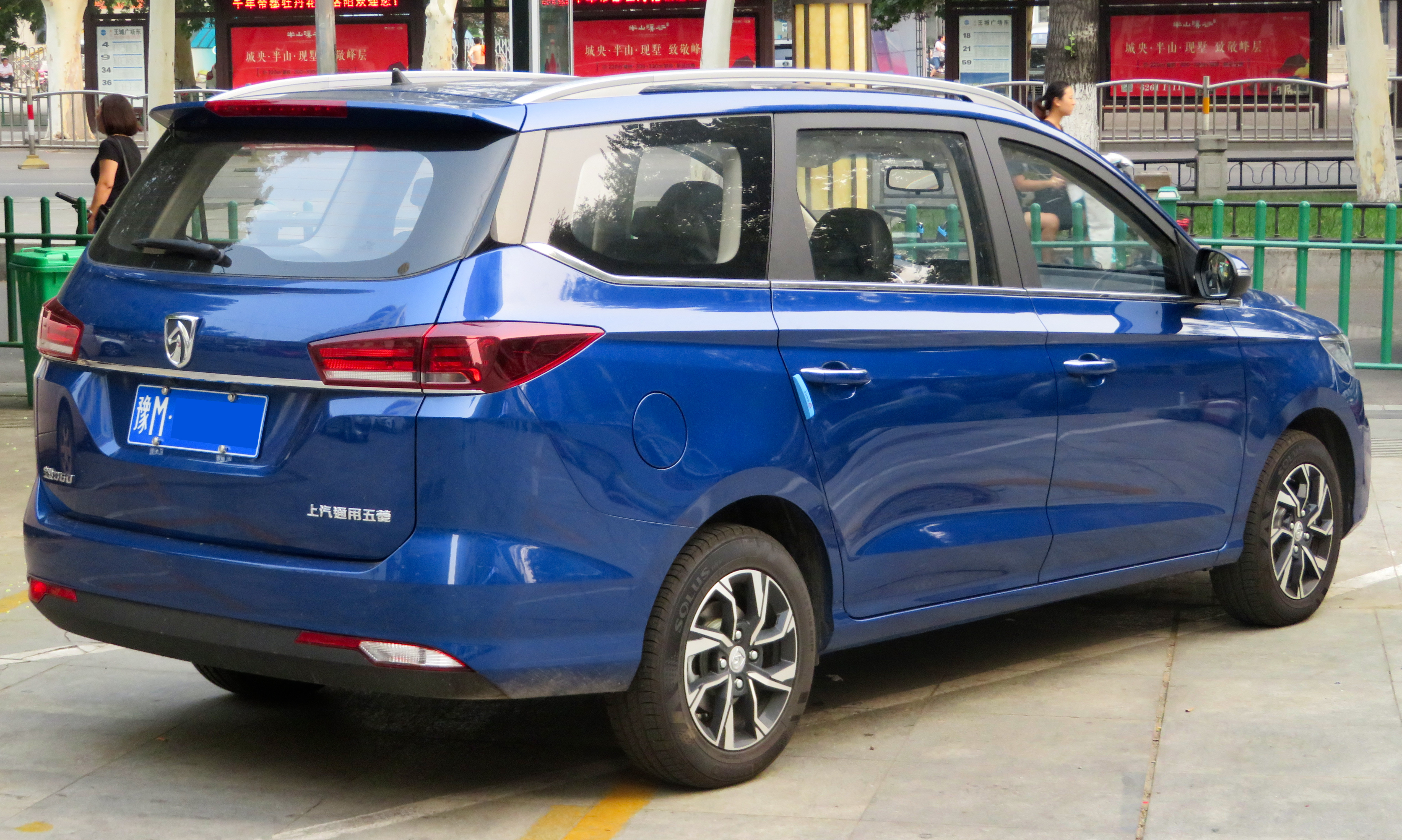 A 2018 Baojun 360 1.5L photographed in Luoyang, Henan province, China